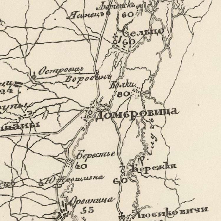 Dubrovytsia on the map "Специальная карта Западной части Российской Империи, составленная и гравированная в 1/420000 долю настоящей величины при Военно-Топографическом Депо, во время управления генерал квартирмейстера Нейдгарта под руководством генерал-лейтенанта Шуберта" (known as "Schubert's map"), 1826-1840